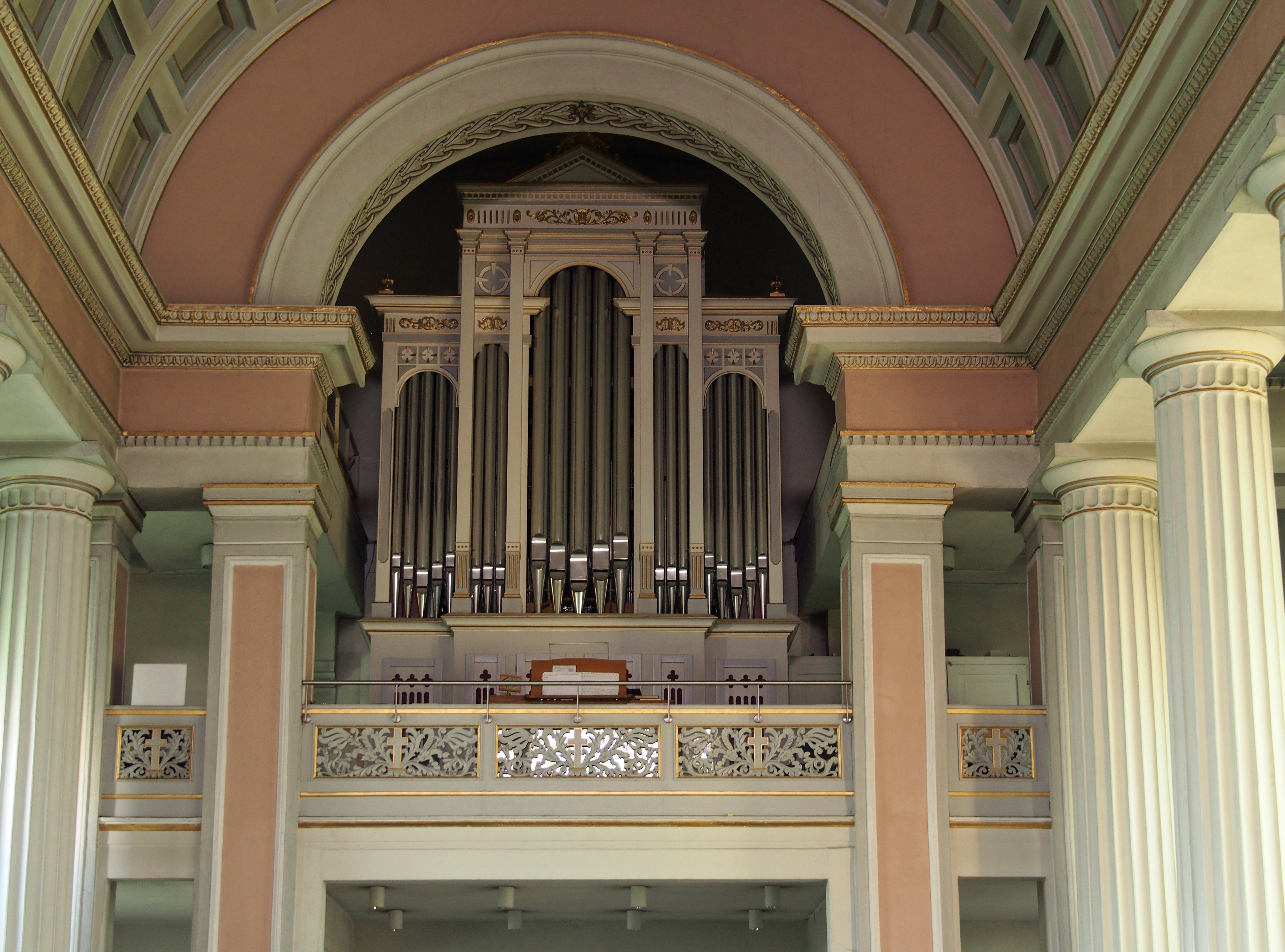 Pipe organ of Church St.Ludwig Celle, Lower Saxony, Germany